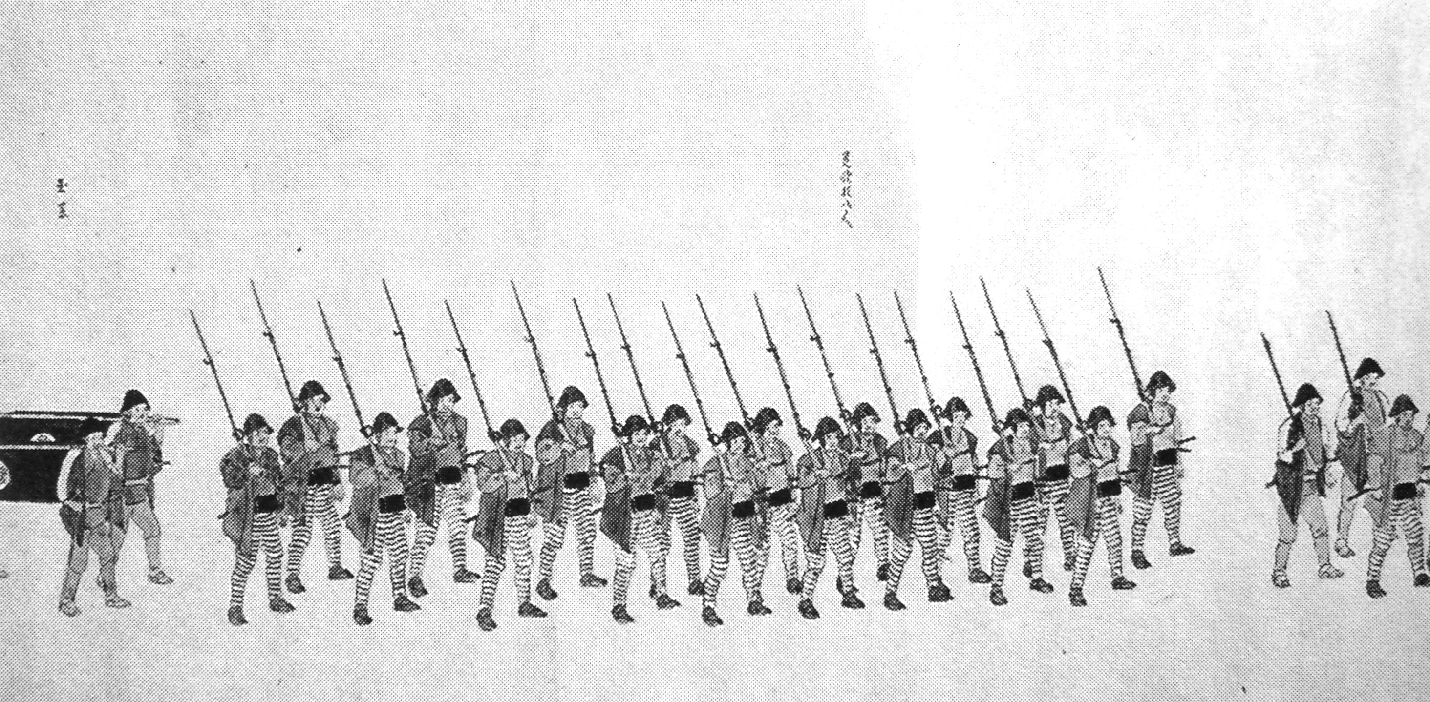 Takadahan_warriors_Second_Choshu_Expedition.